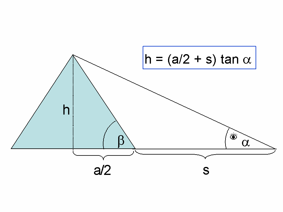 replaces Pyramid-bild1.png, improved typing of formula